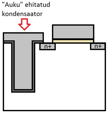 "Auku" ehitatud DRAMi kondensaatori skeem